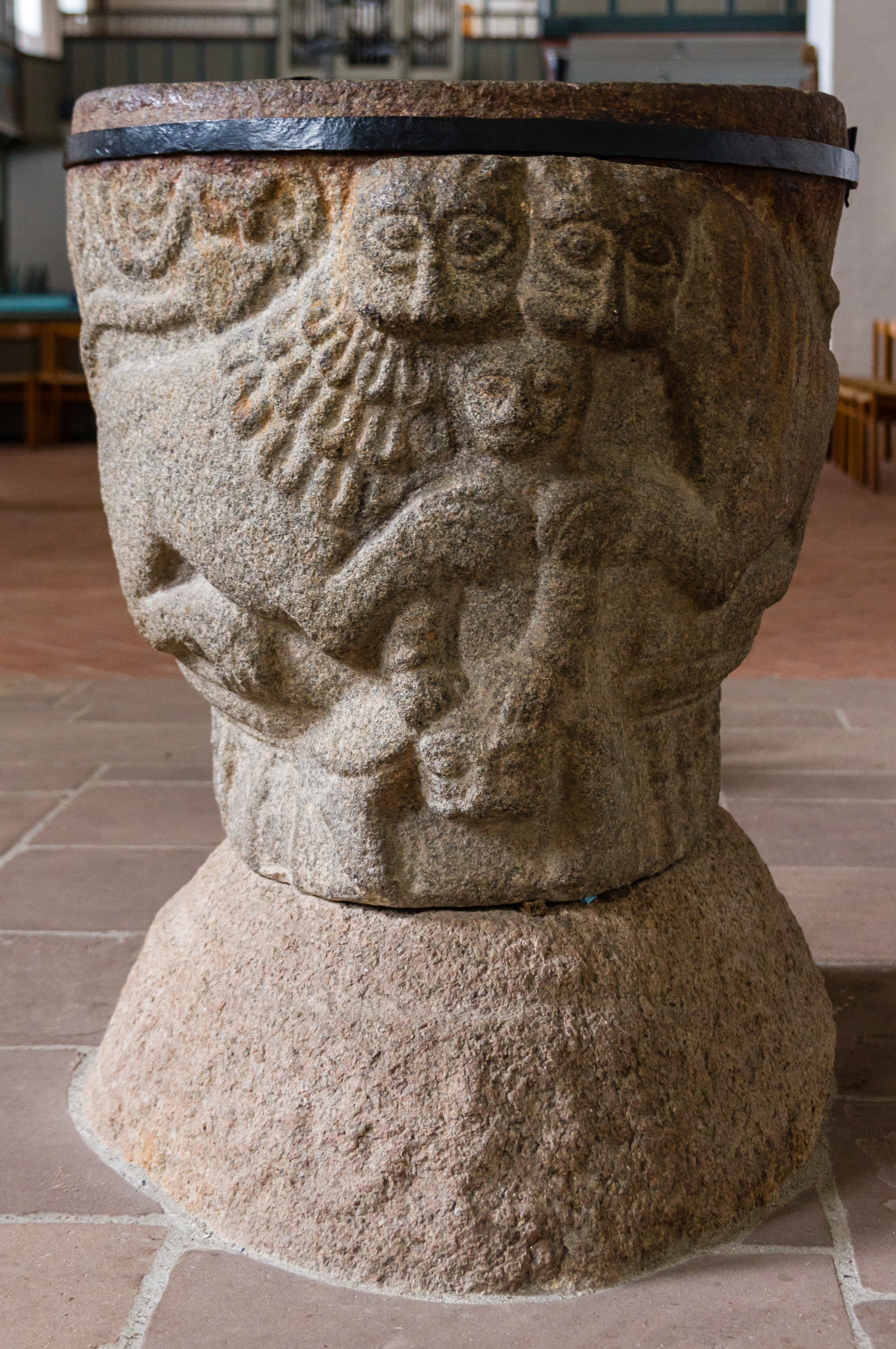 This is a photograph of an architectural monument. Designation: Church St. Johannis mit equipment Construction time: 12th century Description: The Protestant church was built in the 12th century. In the 13th century the church was extended. Inside there is a carved altar from the time around 1480. The granite baptismal font dates from the period around 1200. The pulpit was built in 1618. Category: Structural component, Material entity: Church St. Johannis Place: Municipality Nieblum, Collective municipality Föhr-Amrum, District Nordfriesland, Schleswig-Holstein, Germany Location: Karkstieg